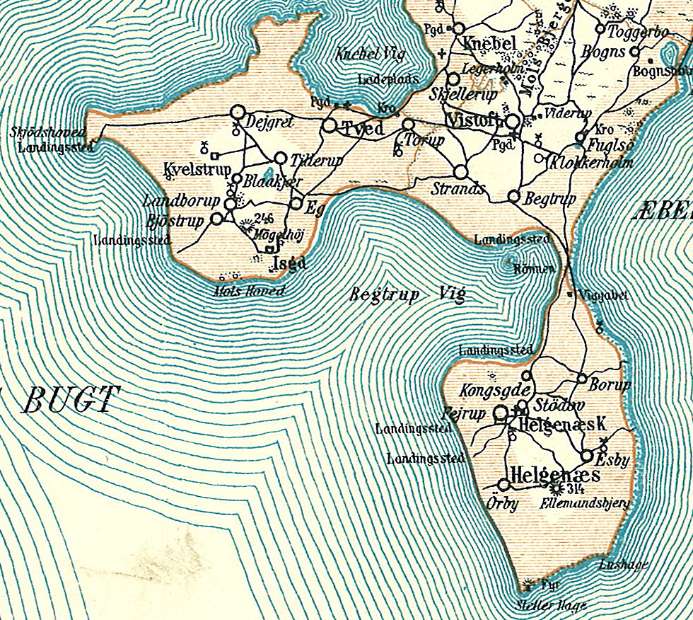 Map of Begtrup Vig in the western part of Randers County in Denmark